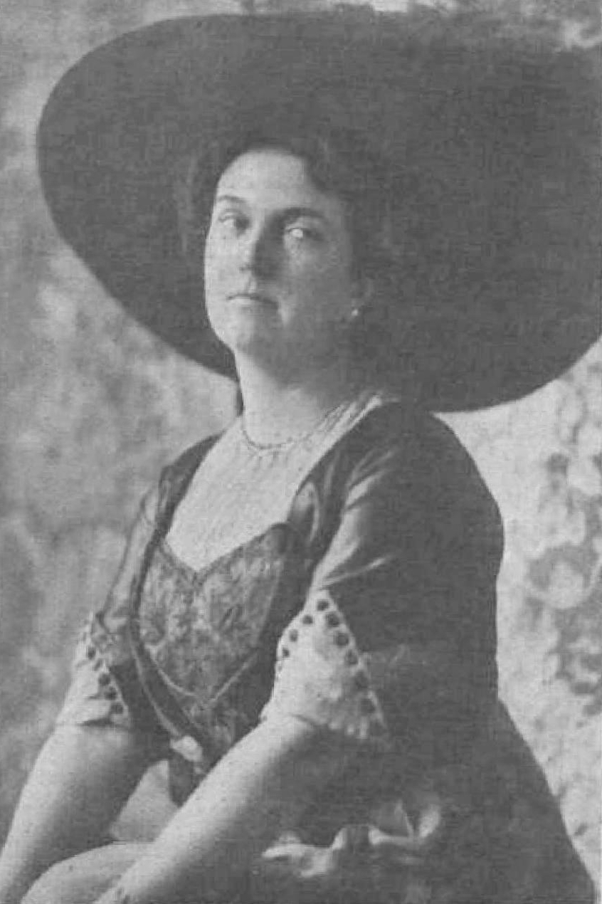 Archduchess Luise of Austria.